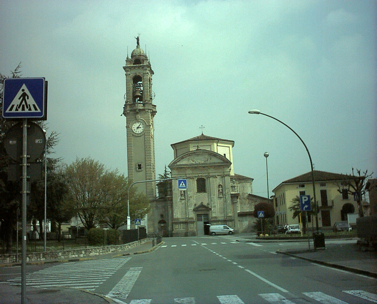 View of Almè, Bergamo, Lombardy, Italy